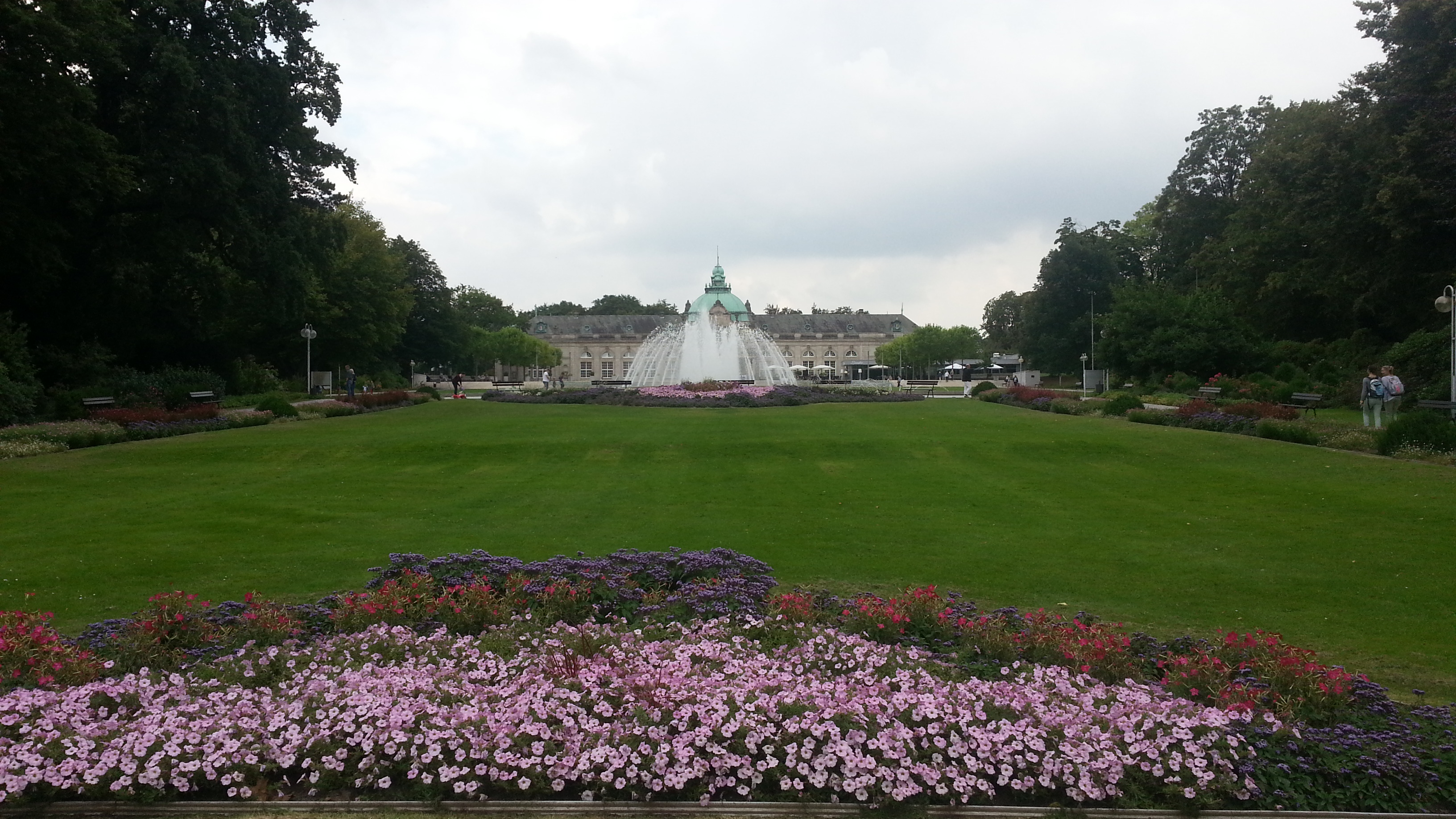 The Kurpark with the Kaiserpalais in Bad Oeynhausen